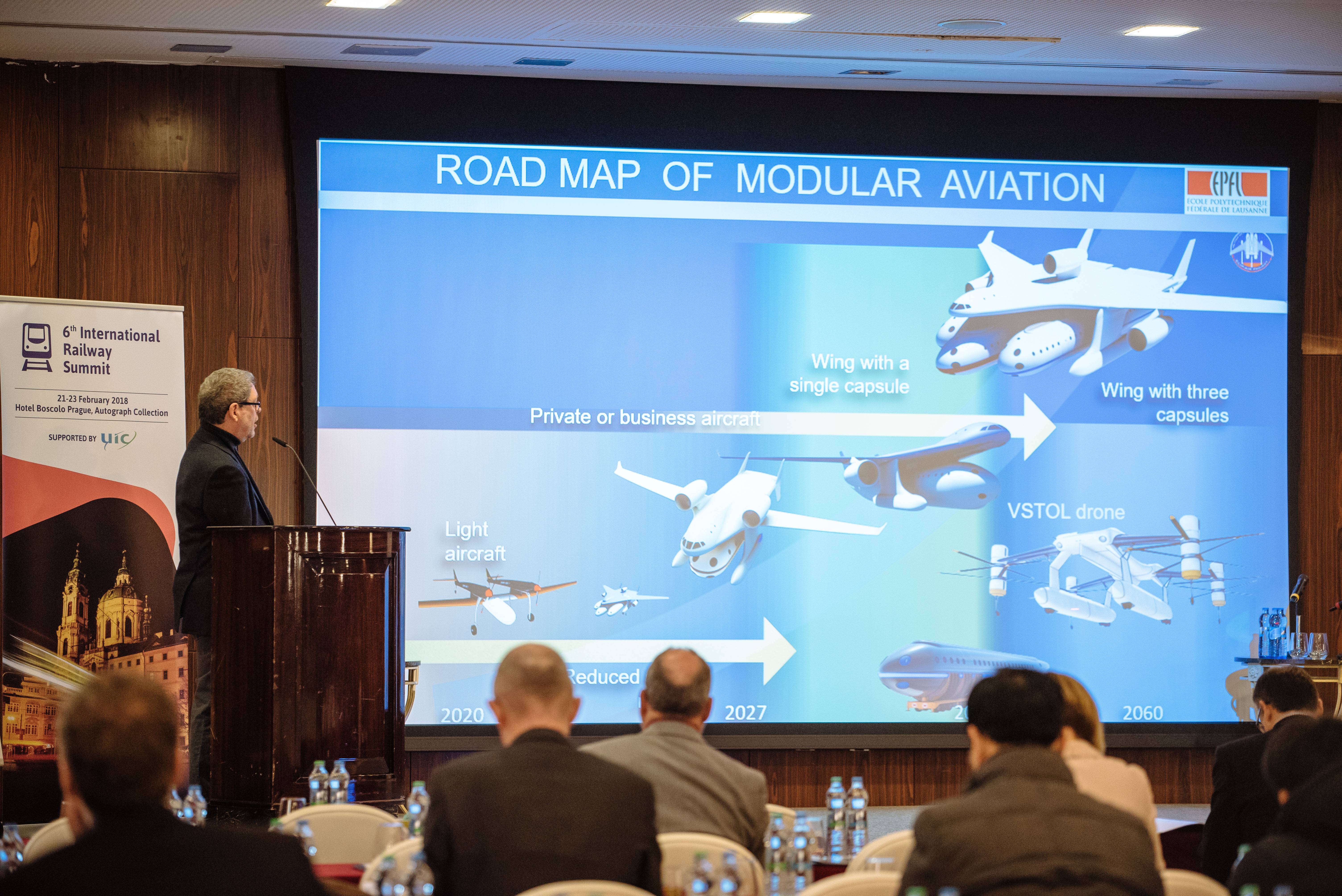 Claudio Leonardi, Project Manager, Clip-Air, École polytechnique fédérale de Lausanne (EPFL), presents the unique concept for an air/rail transportation system on Friday 23 February 2018 at the 6th International Railway Summit at Hotel Boscolo Prague, Autograph Collection.